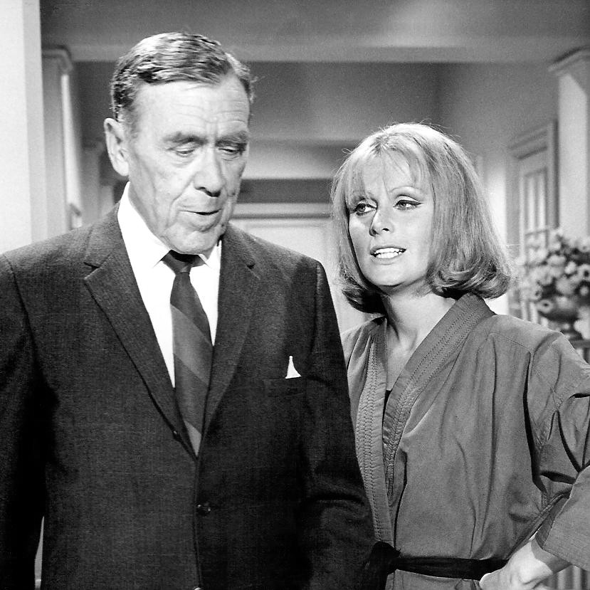 Photo of Leo G. Carroll as Alexander Waverly and guest star Diana Hyland from the television program The Man From U.N.C.L.E.. The episode is "The Candidate's Wife Affair".